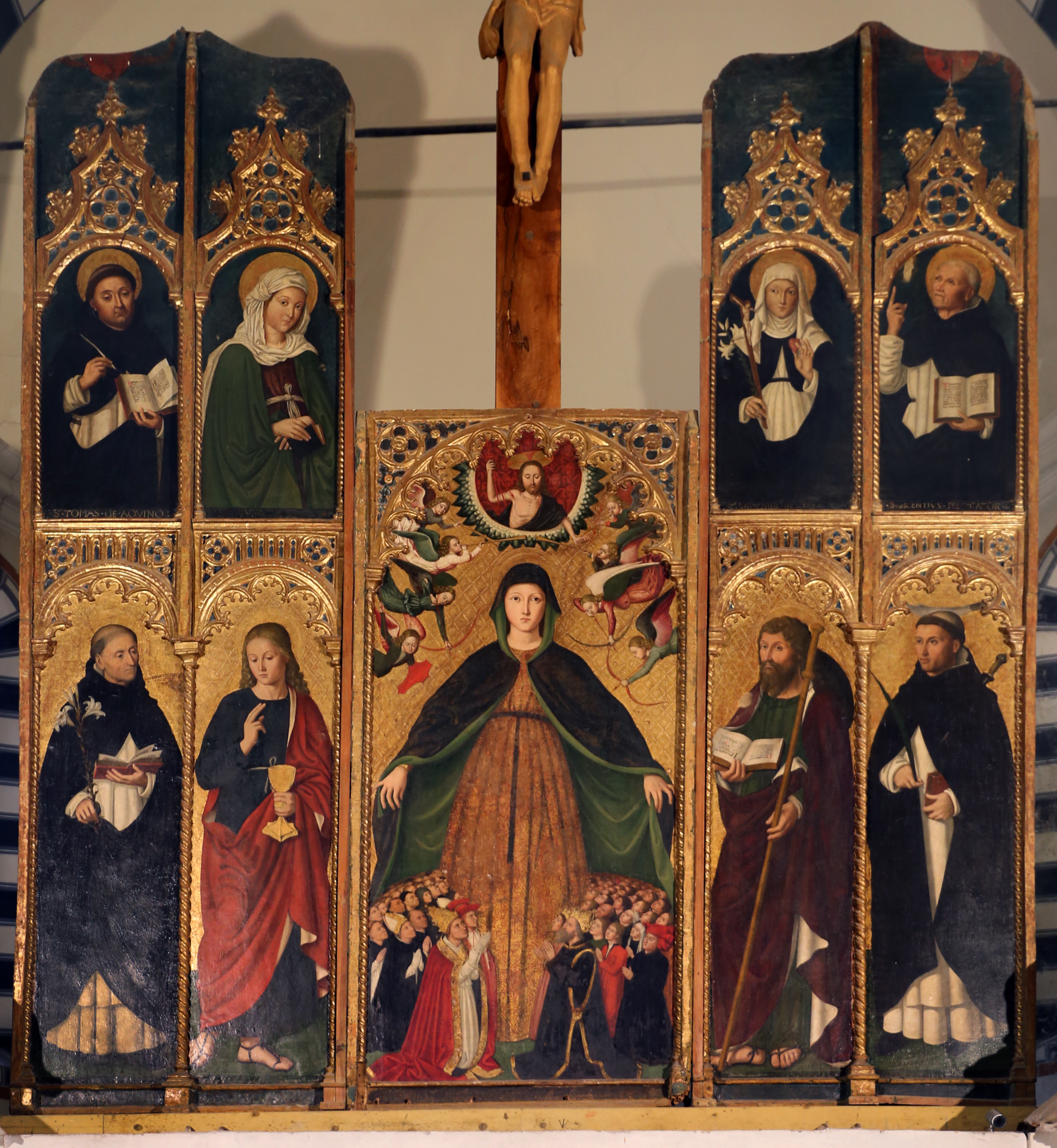 Paintings by Ludovico Brea in San Domenico (Taggia)